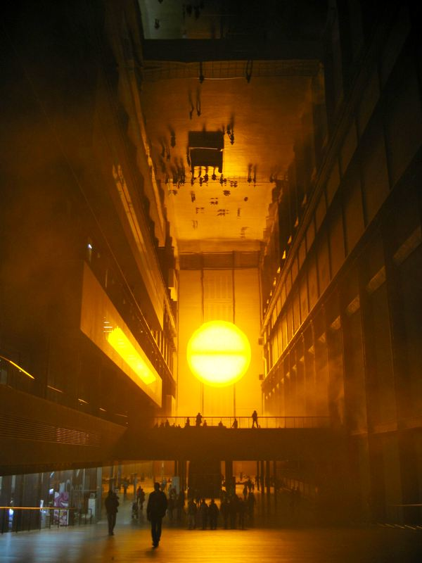 Olafur Eliasson's 'The Weather Project' in Tate Modern.